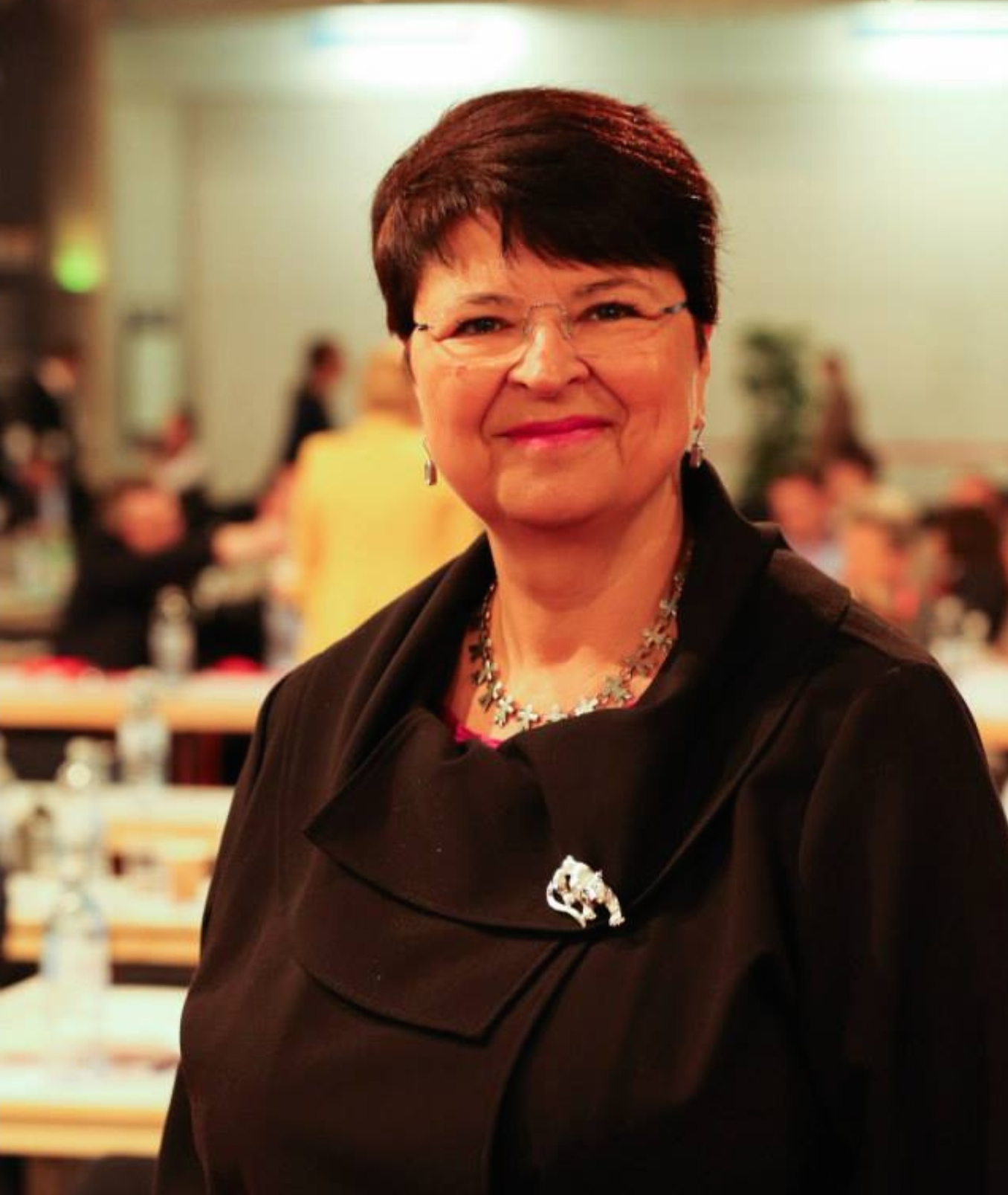 Picture of Renate Brauner, Vice Major and Deputy Governor of Vienna, shot at a Party Convention SPÖ Wien